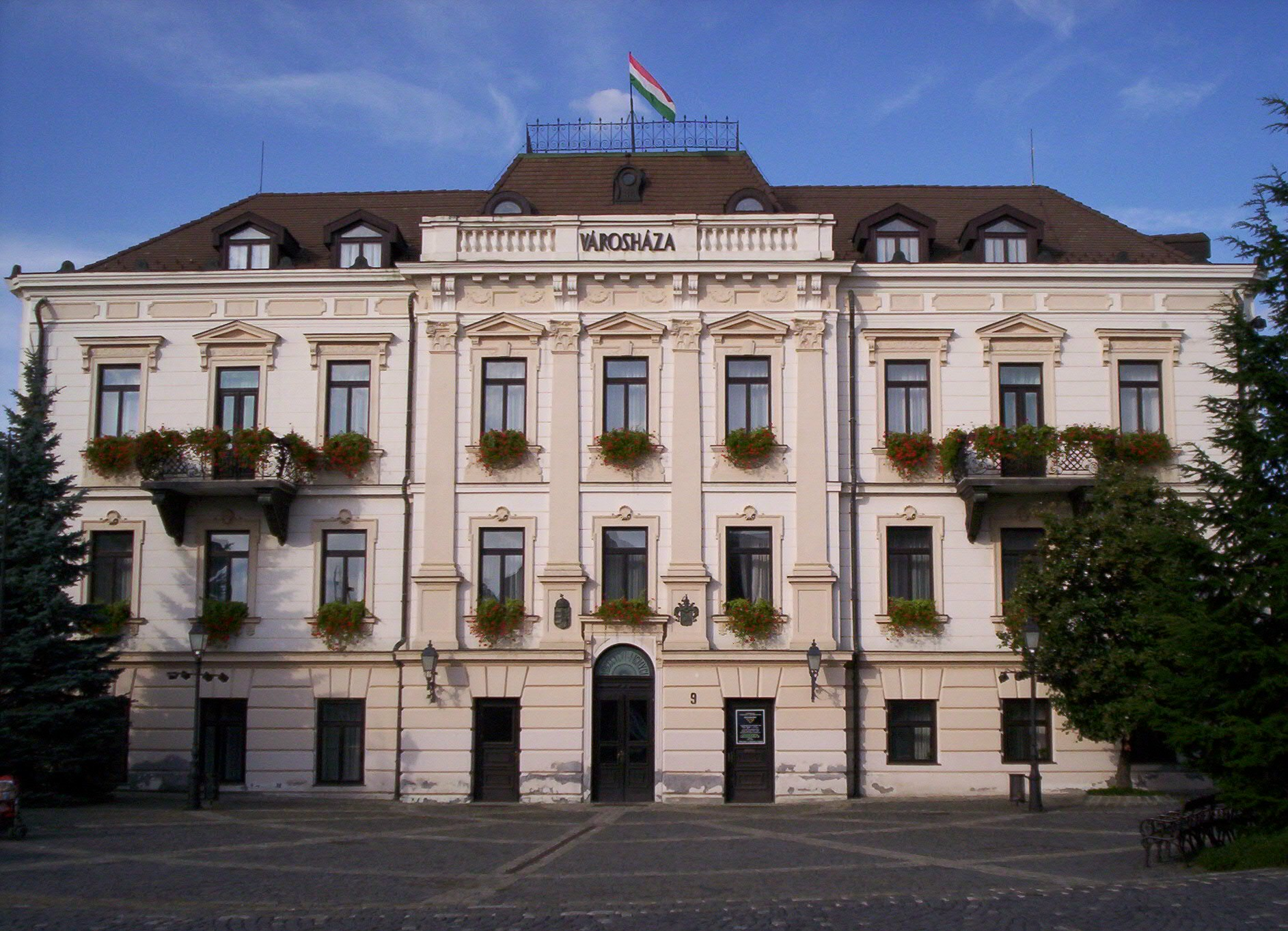 City Hall, Veszprém